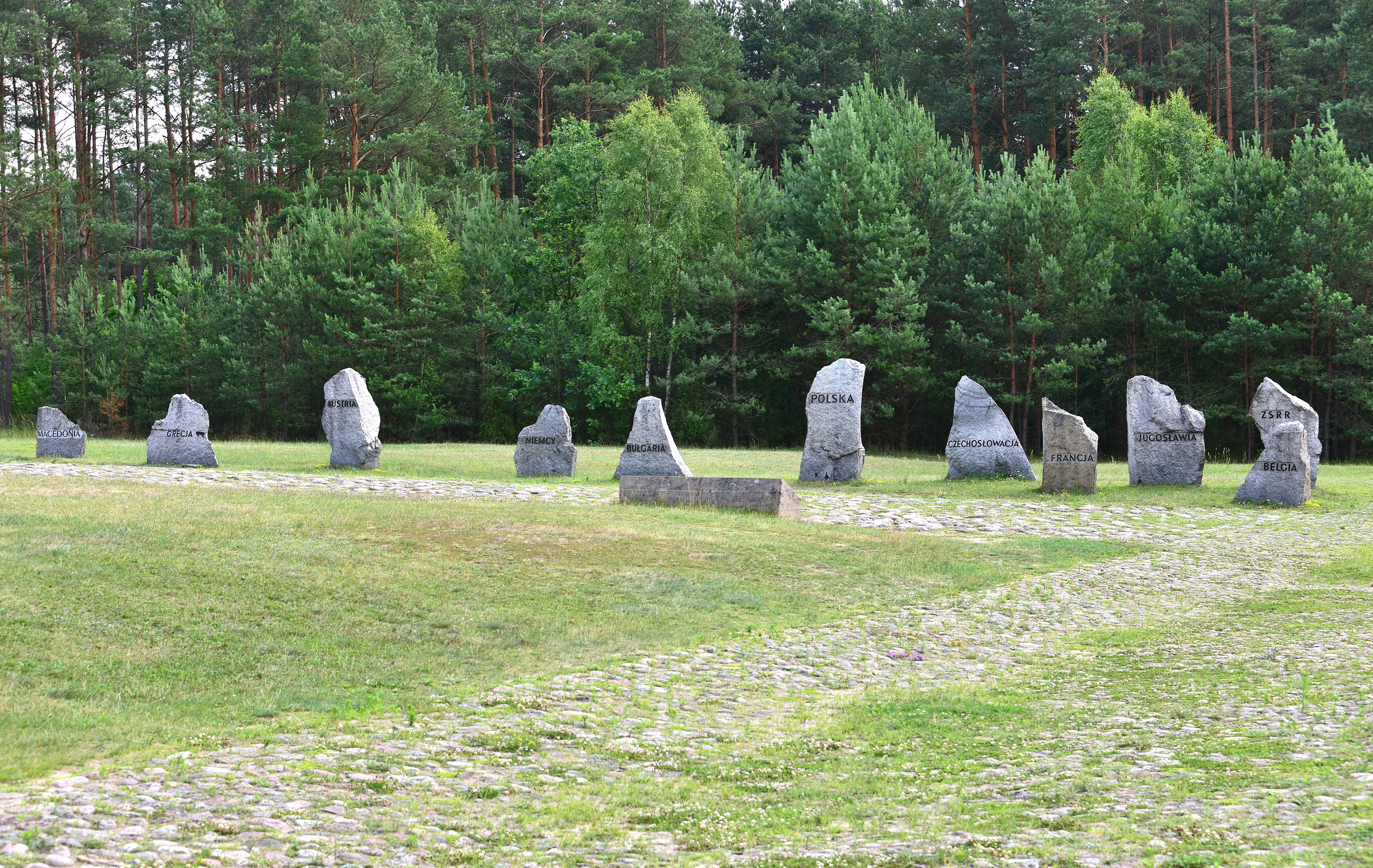 Treblinka exterminantion camp memorial. Stones with the names of the countries engraved